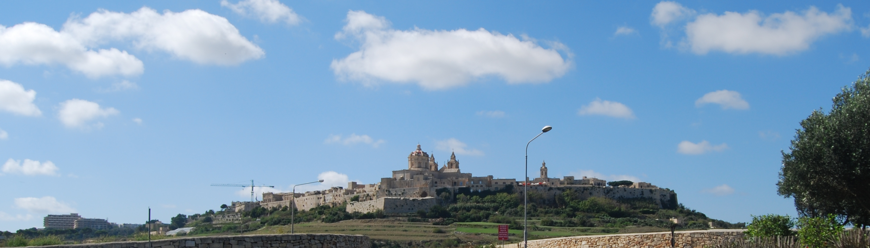 Mdina, MaltaEsperanto: Medino, Malto